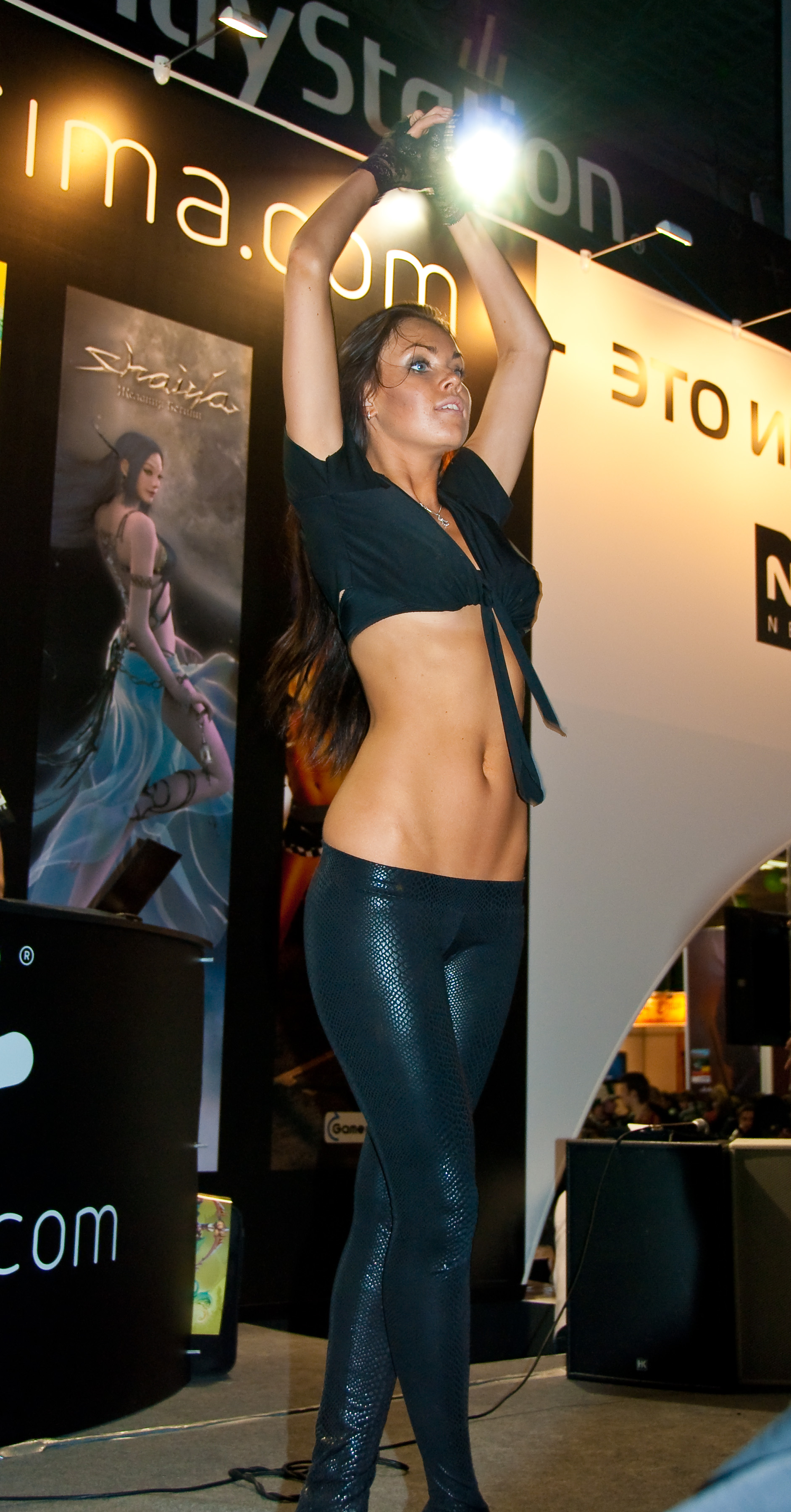 Taken on November 6, 2009 Ostankinskiy, Moskva, RU Nikon D40X